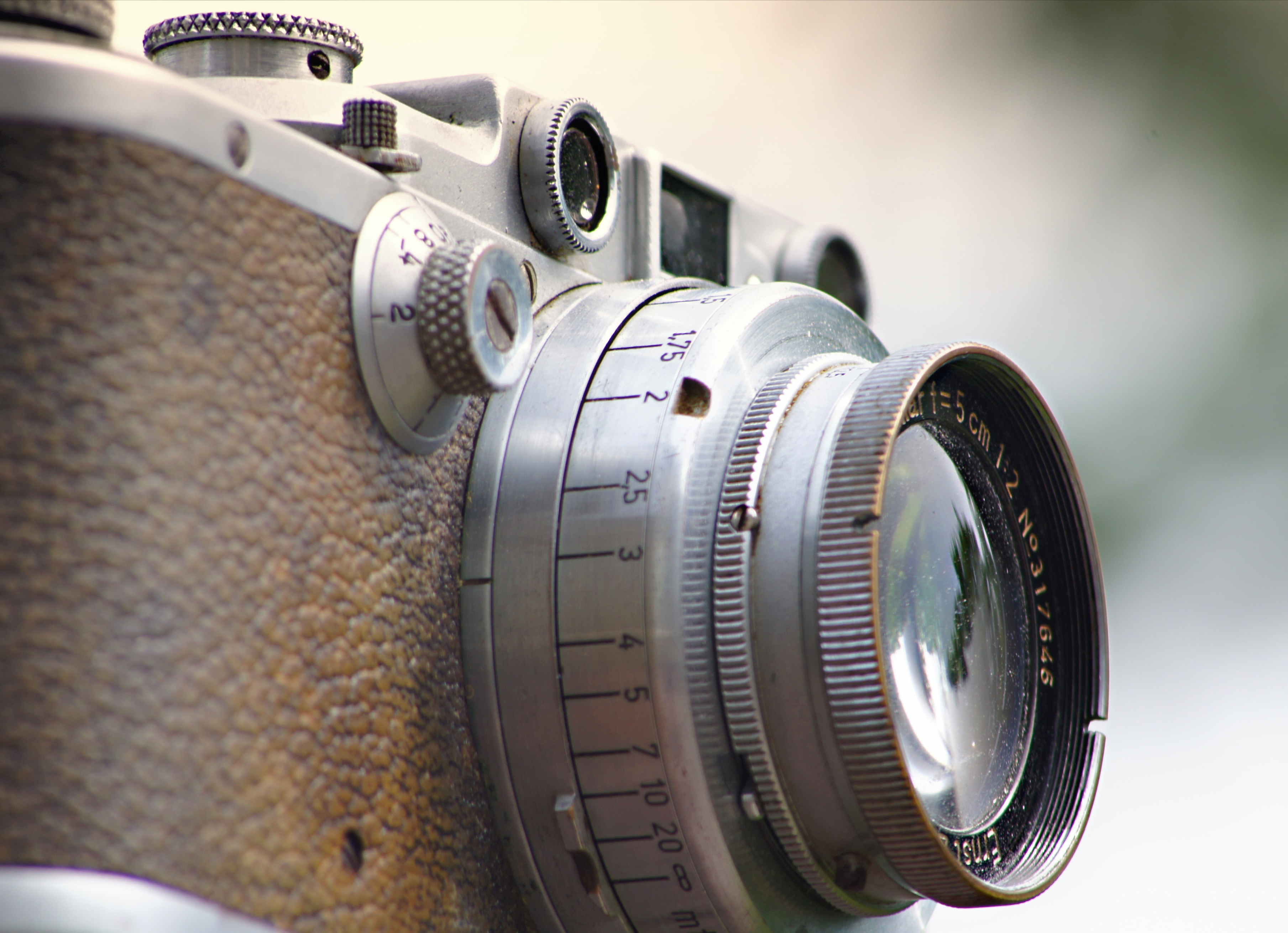 Circa 1936